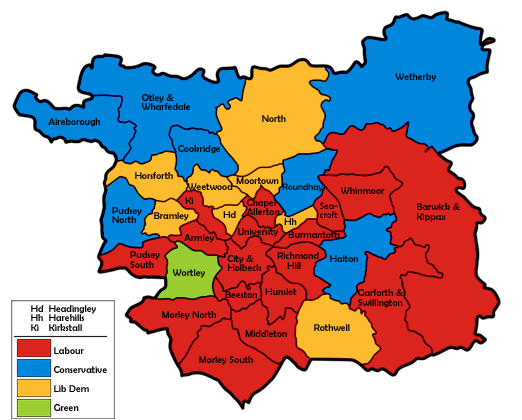 Ward map of Leeds City Council with political colouring for the 2000 election.